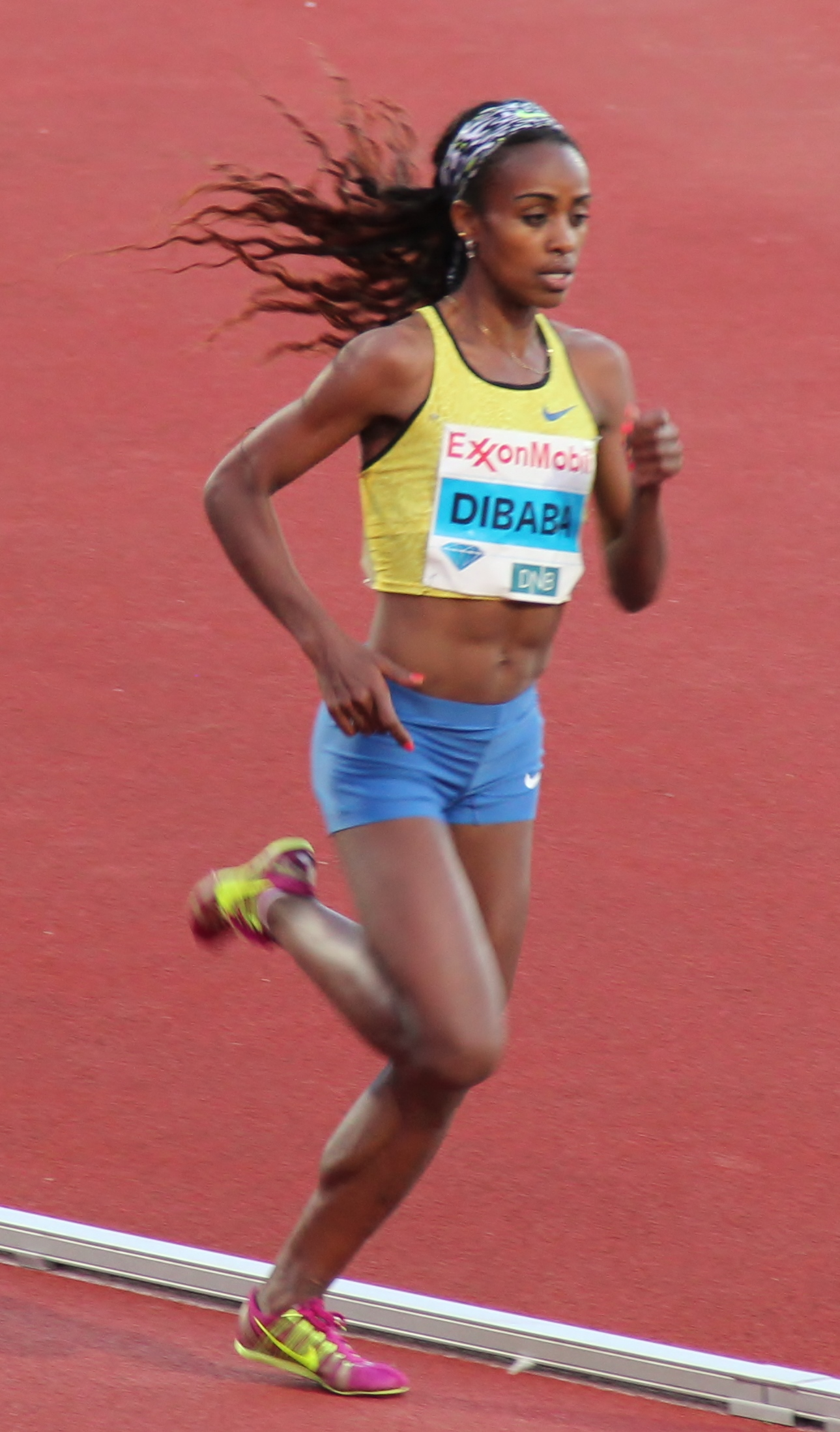 Genzebe Dibaba, Ethiopian long distance runner at the 2015 Bislett Games